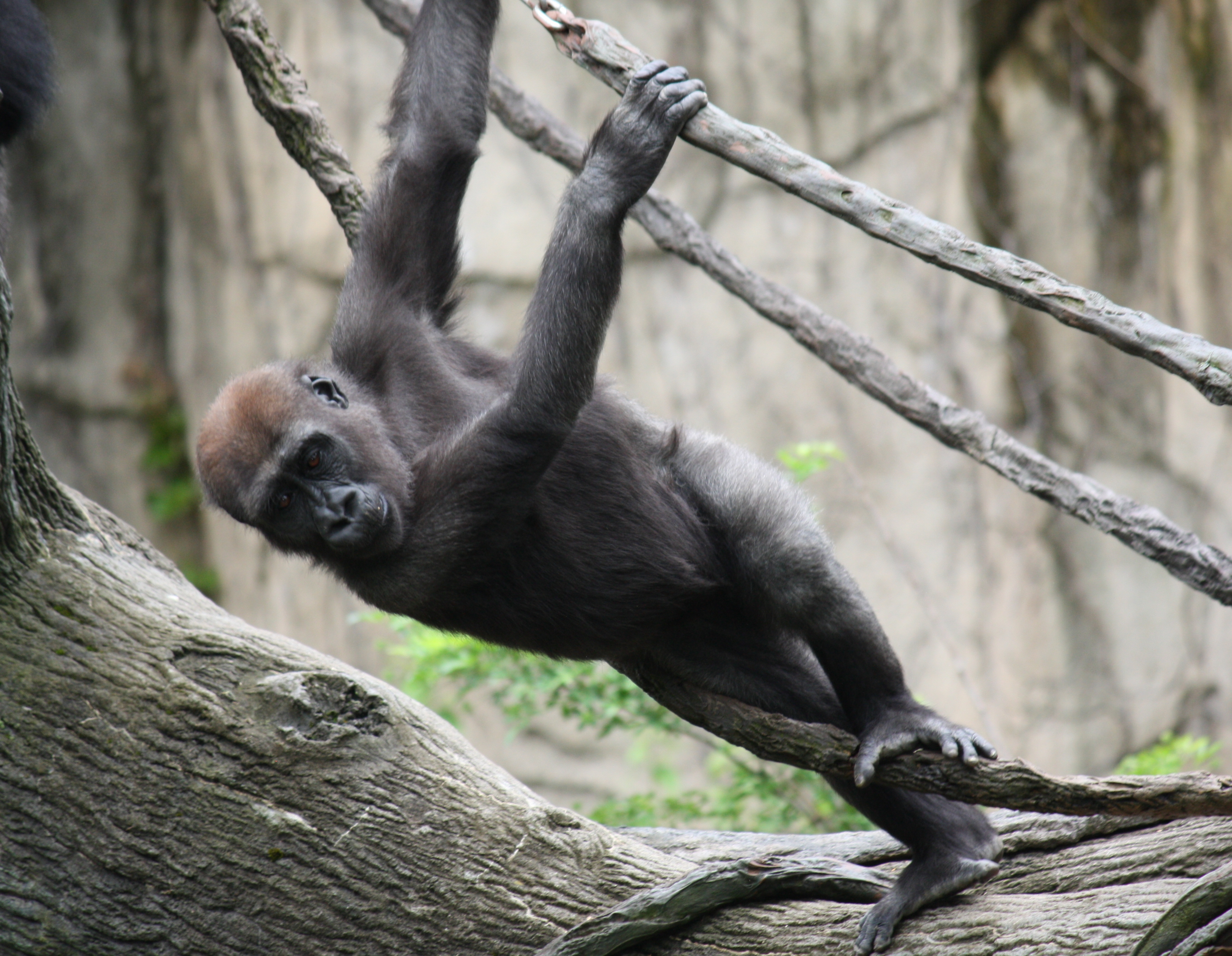 Western Lowland Gorilla Baby Gorilla gorilla gorilla at Cincinnati Zoo